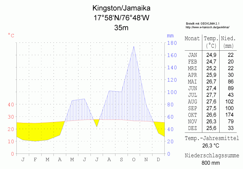 climate chart in the format by Walther and Lieth